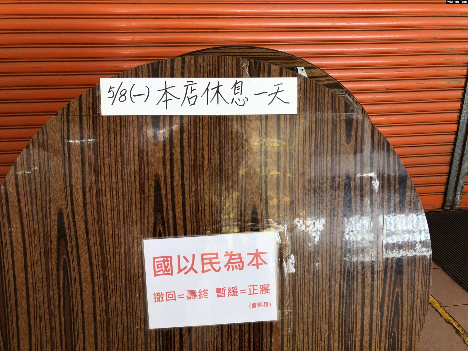 A restaurant in Wah Fu Estate, stuck a notice regarding their participation on the strike and mocked Carrie Lam's wordings on a press conference explaining that the bill was "dead".